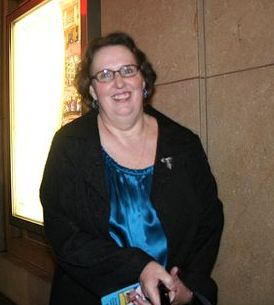 Phyllis Smith at the Dan in Real Life premiere